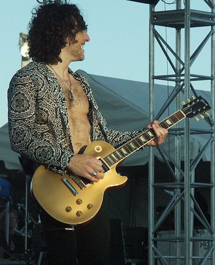 Taken by Weatherman90 at North Dakota State Fair Def Leppard Concert, 2007-07-26, adapted from Image:CollenCampbell.JPG